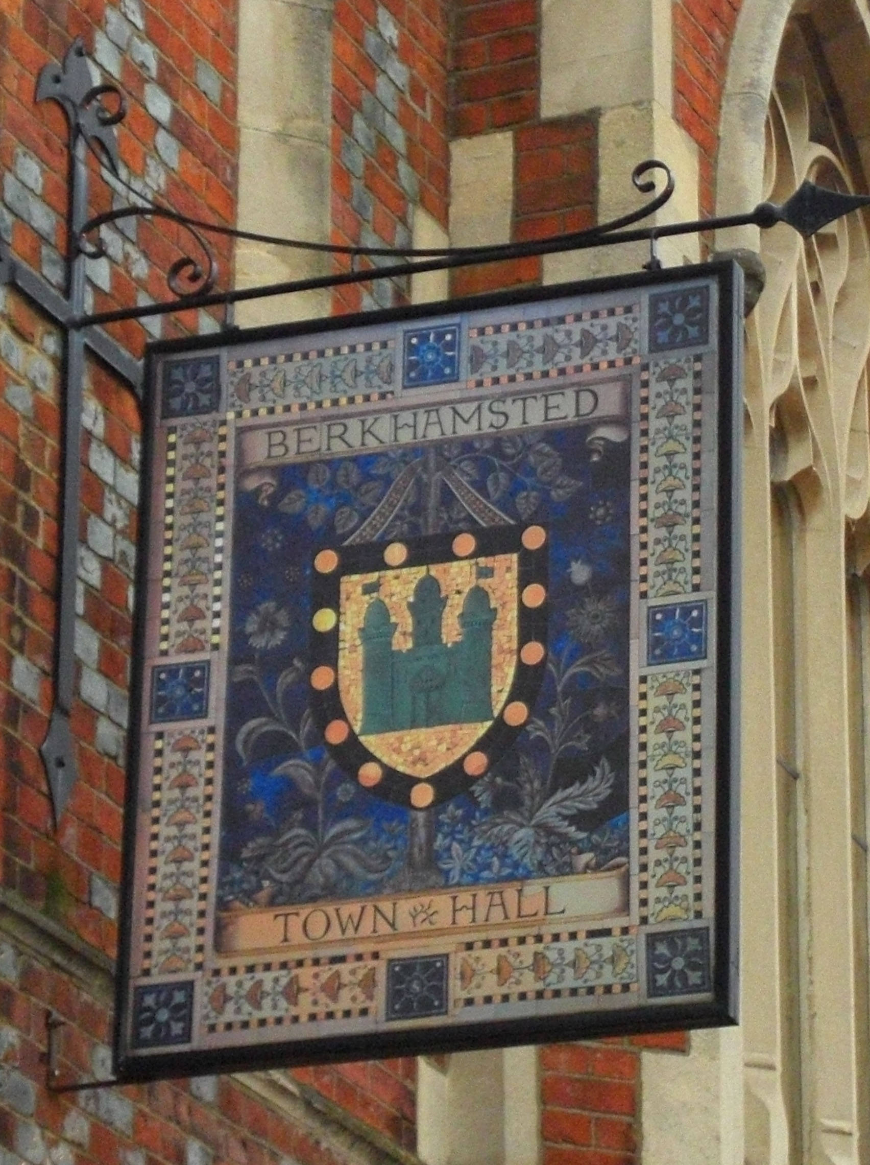 Berkhamsted Town Hall Sign